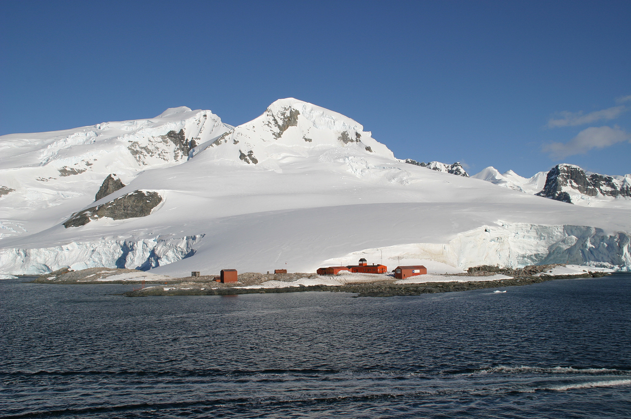 Antarctic Research Station Gonzales Videla: Founded in 1951, the Chilean research station is located in the idyllic Paradise Bay.